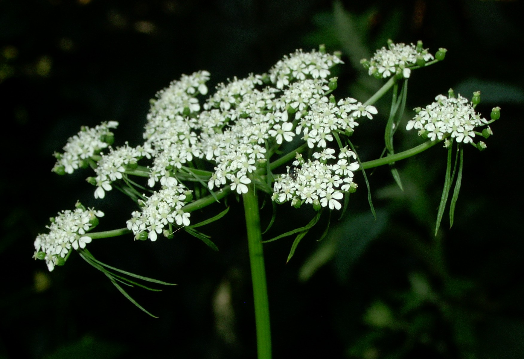 Inflorescence of Aethusa cynapium, umbel